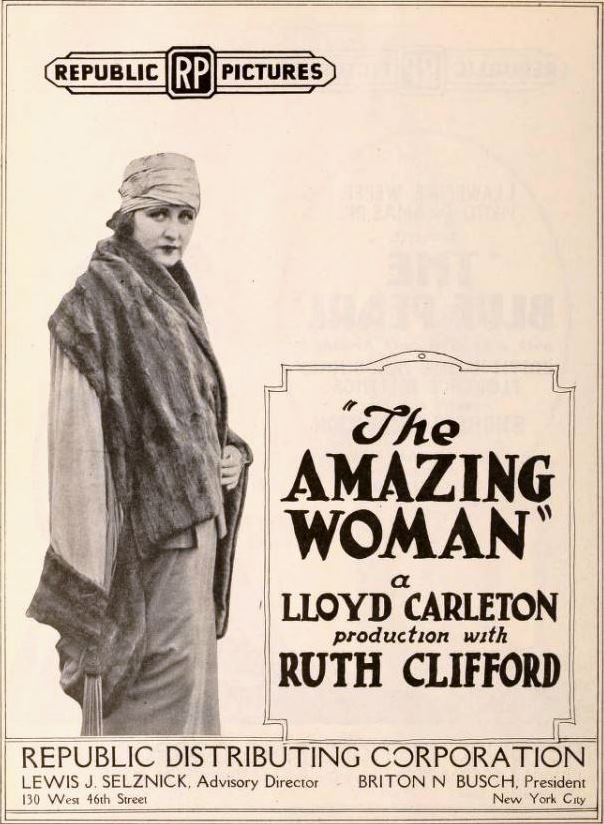 Advertisement for the American drama film The Amazing Woman (1920) with Ruth Clifford, on page 16 of the December 13, 1919 Exhibitors Herald.